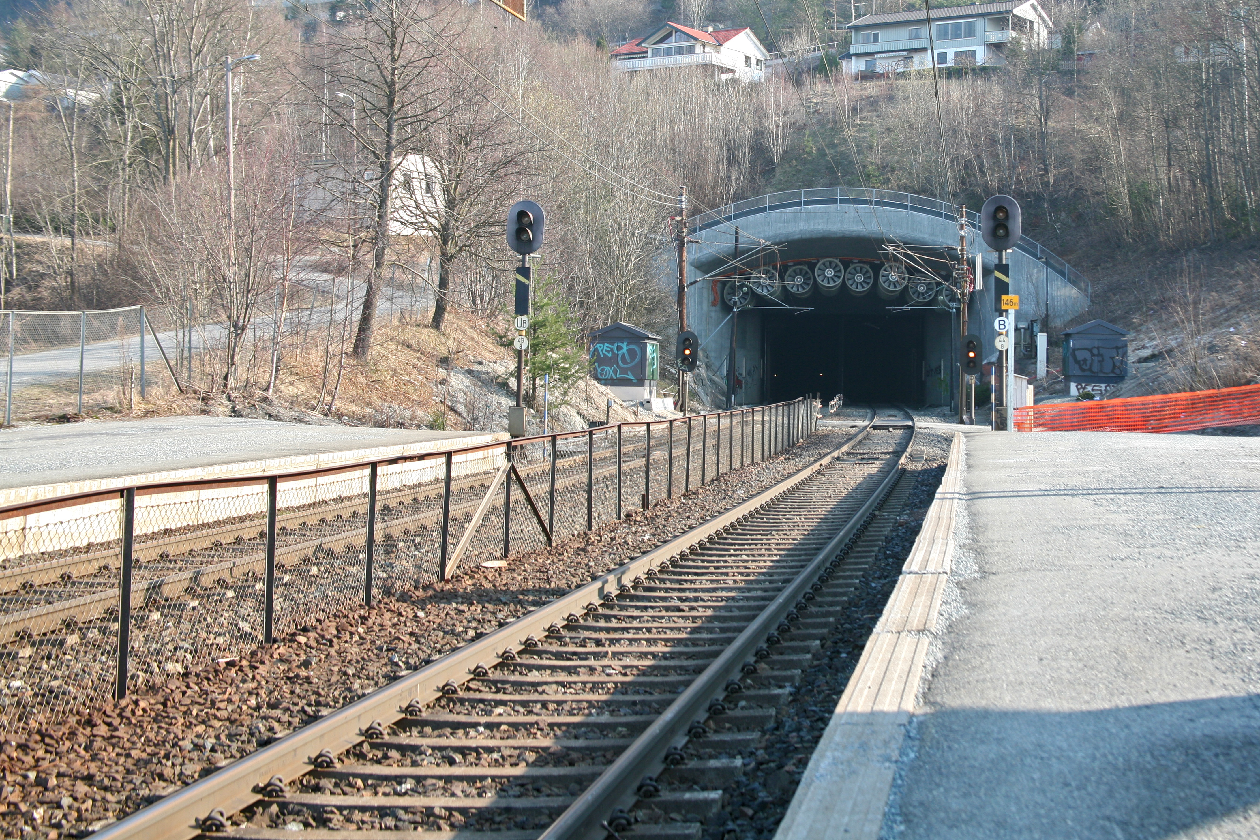 Picture of Lieråsen railway Tunnel (Norway)